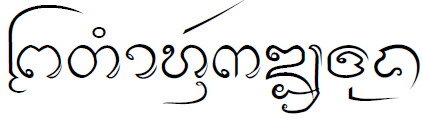 Name of Place in the North of Thailand